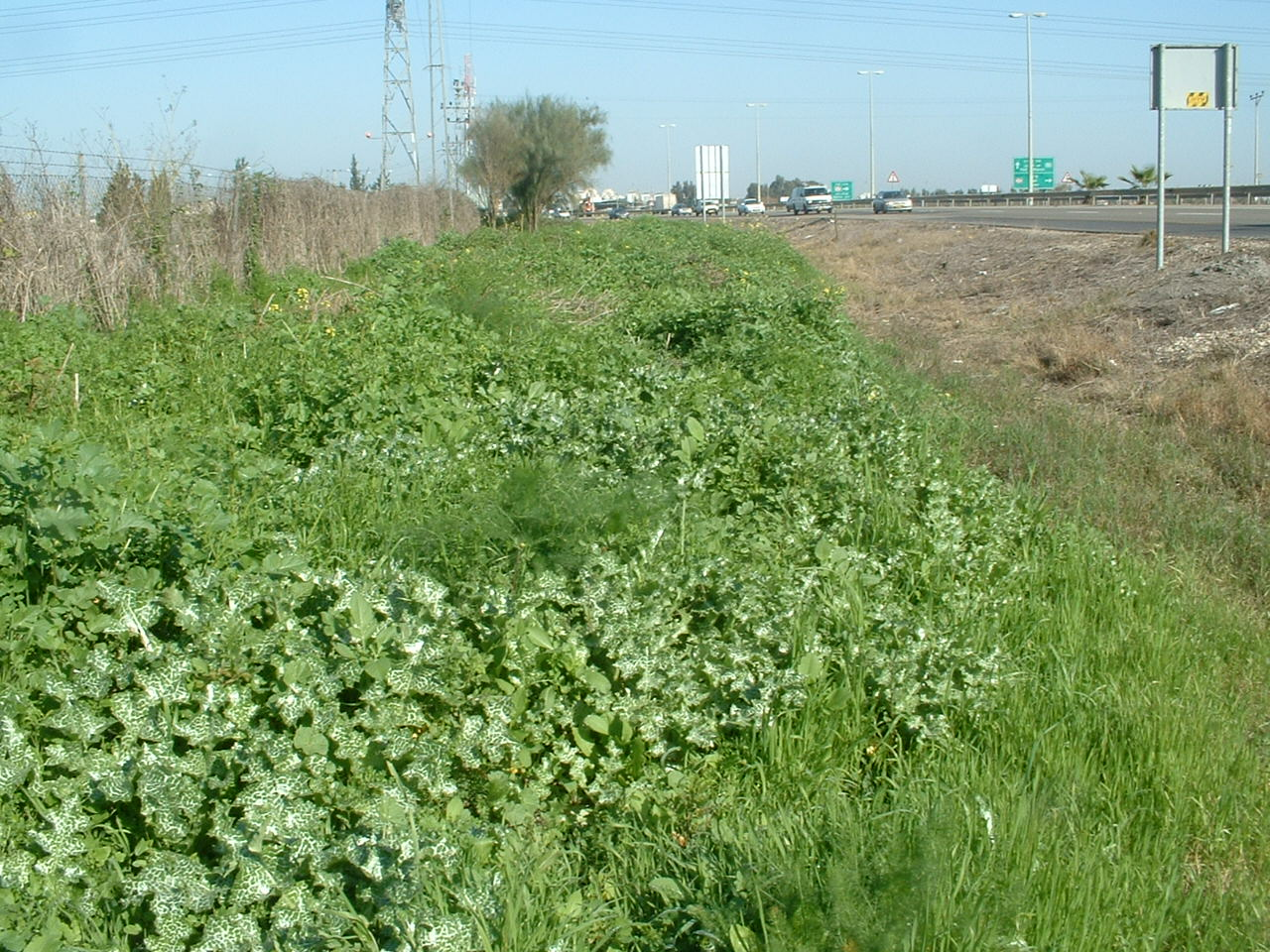 A mixed-species ruderal community, growing on the road-side ground, next to road 40, north of the Yarkon river, Israel.